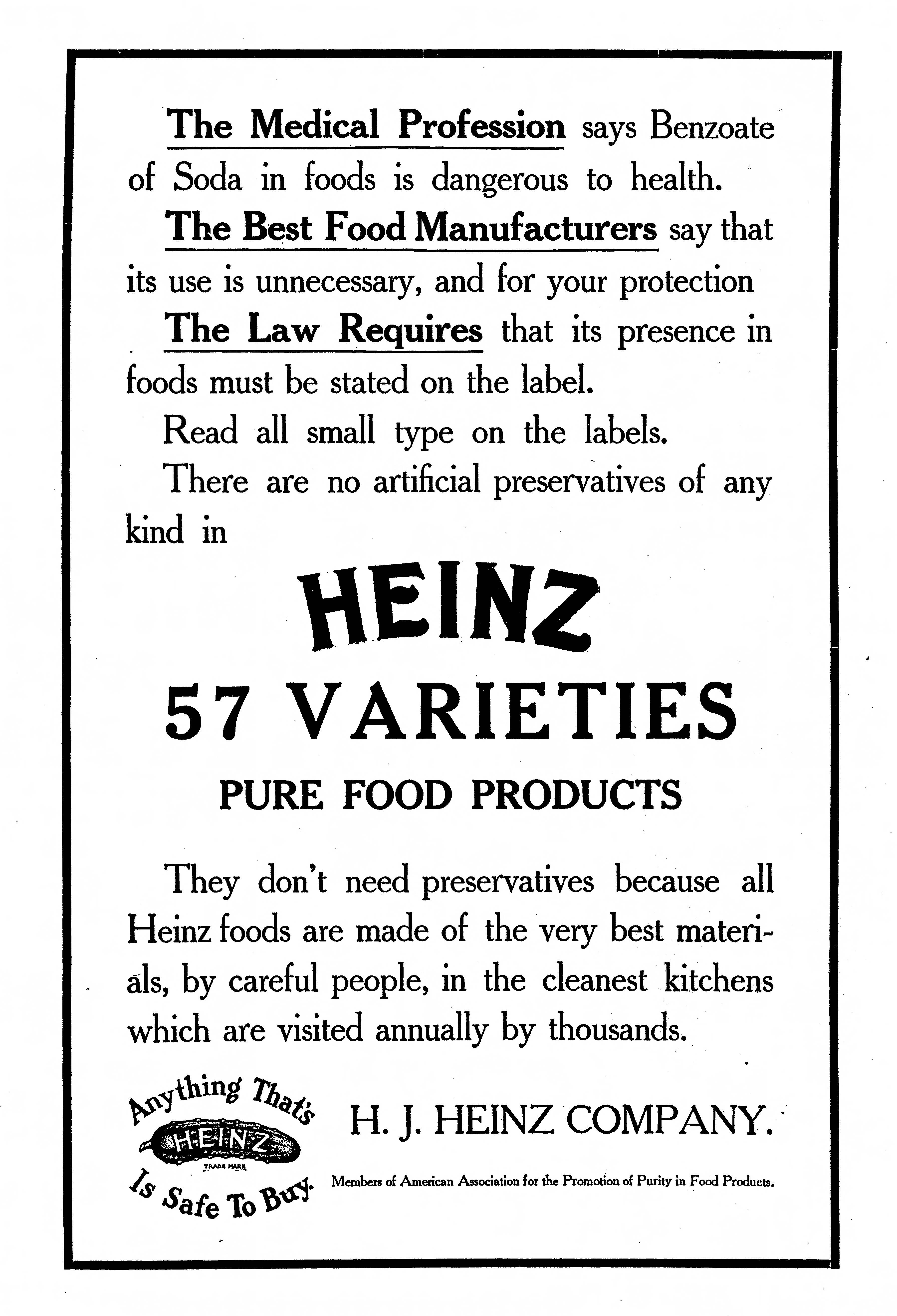 From the materials for the Alaska-Yukon-Pacific Exposition of 1909, held in Seattle. H. J. Heinz Company published this booklet for the 1909 Alaska-Yukon-Pacific Exposition in Seattle, Washington, USA. Ad for Heinz products, touting their lack of artificial preservatives.